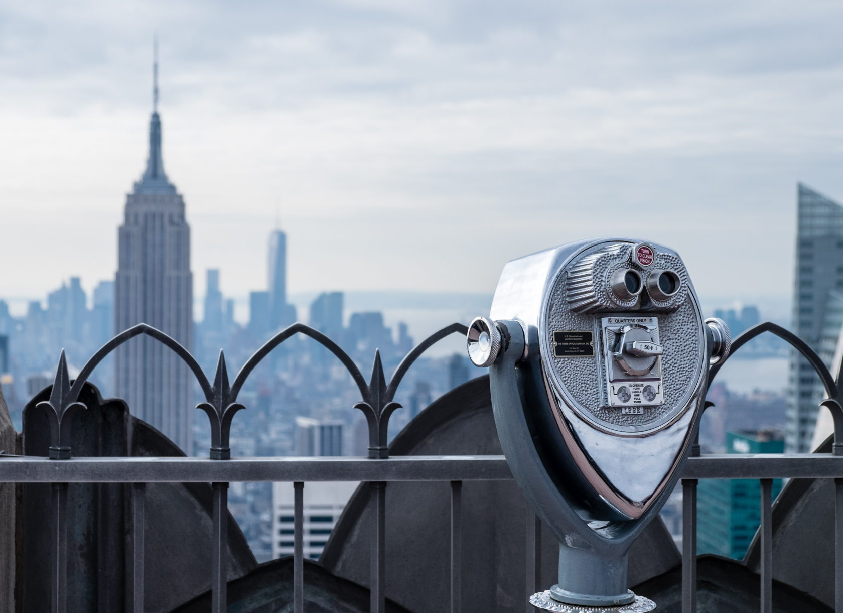 A view looking south to the Empire State Building from the observation deck on the GE Building, Manhattan, including one of the Tower Optical binocular viewers.